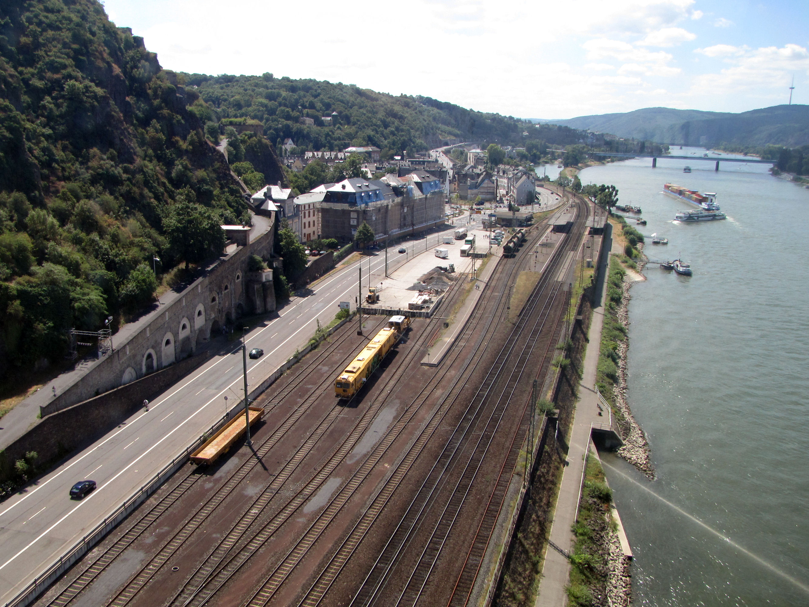 Station Koblenz-Ehrenbreitstein, seen from a godola of the Koblenz Cable Car